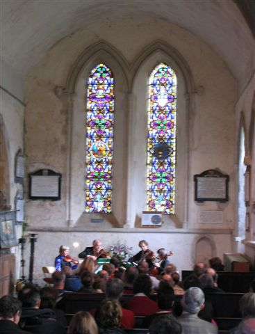 Quatuor Arpeggione at Musique-Cordiale event 2005.